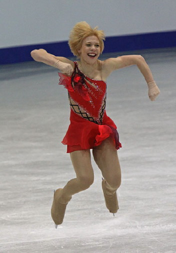 Alena LEONOVA at the 2009 World Junior Championships. FP.